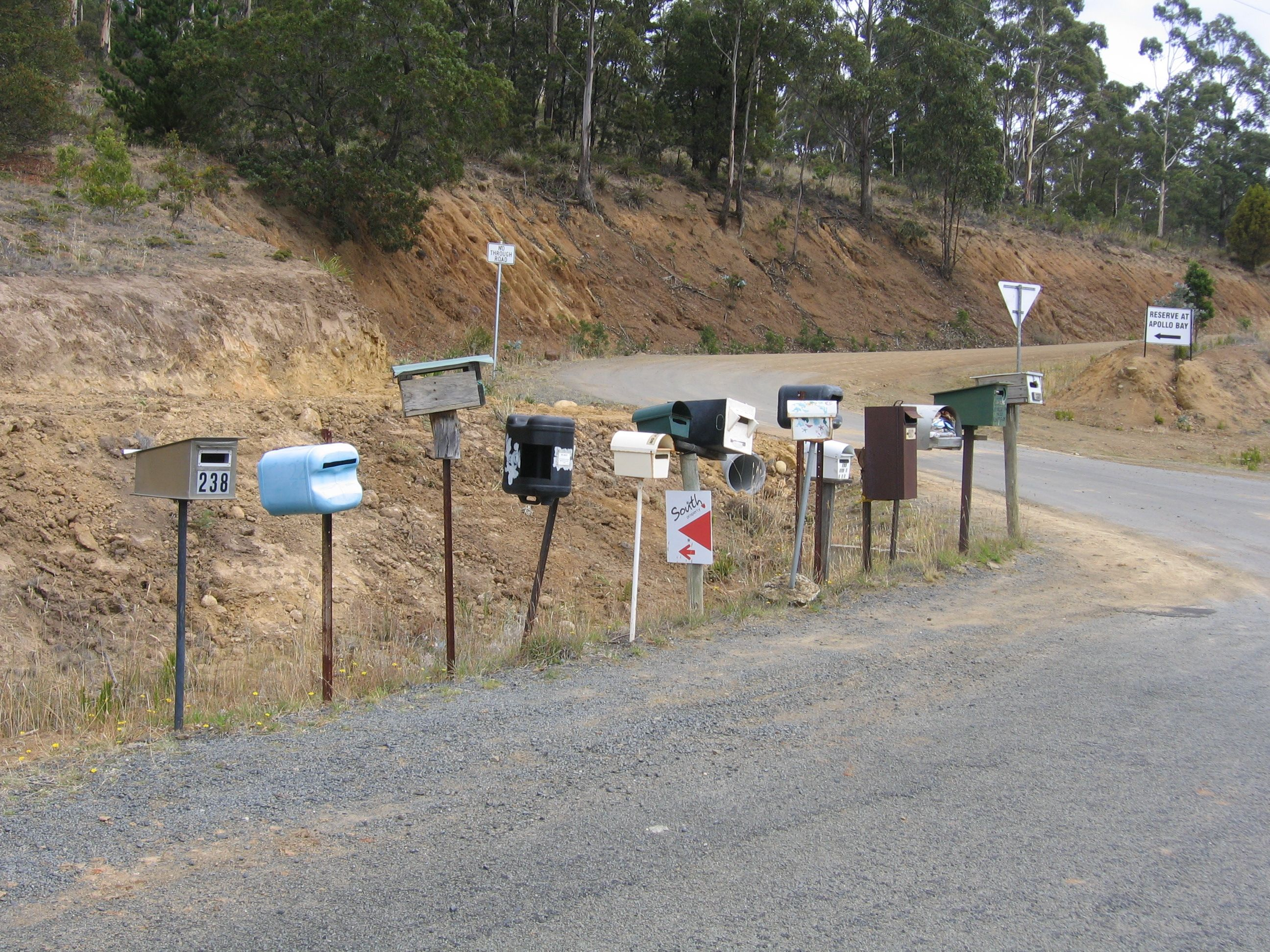 Mail Boxes Bruny Island